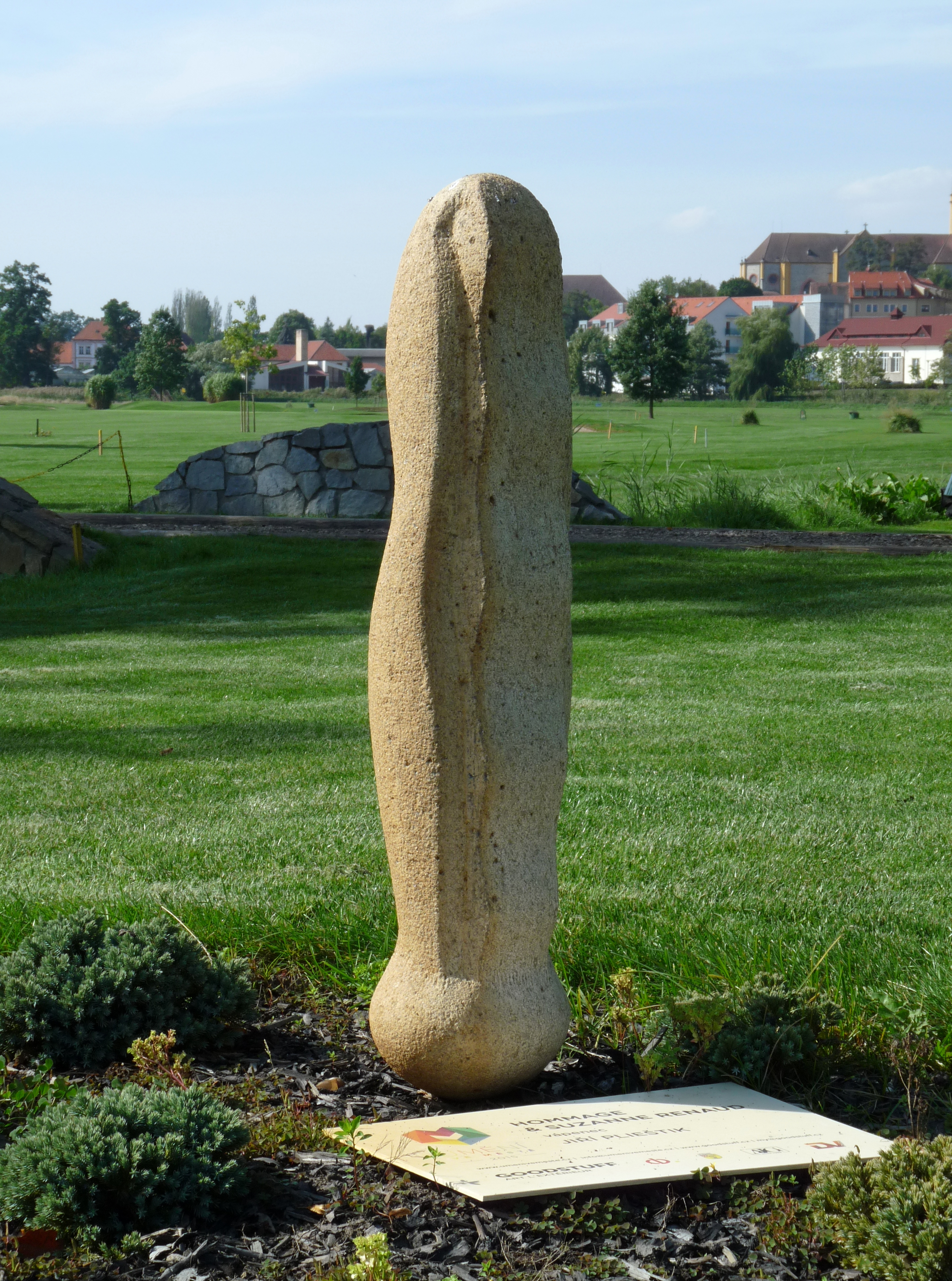 "Hommage a Suzanne Renaud" by Jiří Plieštík, displayed at the golf course in the town of Hluboká nad Vltavou, South Bohemian Region, Czech Republic, during the "Art in Town 2015" exhibition.